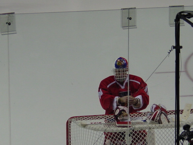 Salt Lake City 2002 Winter Olympics Flashback series featuring adventures of Dave Thorvald and Dan Funboy.